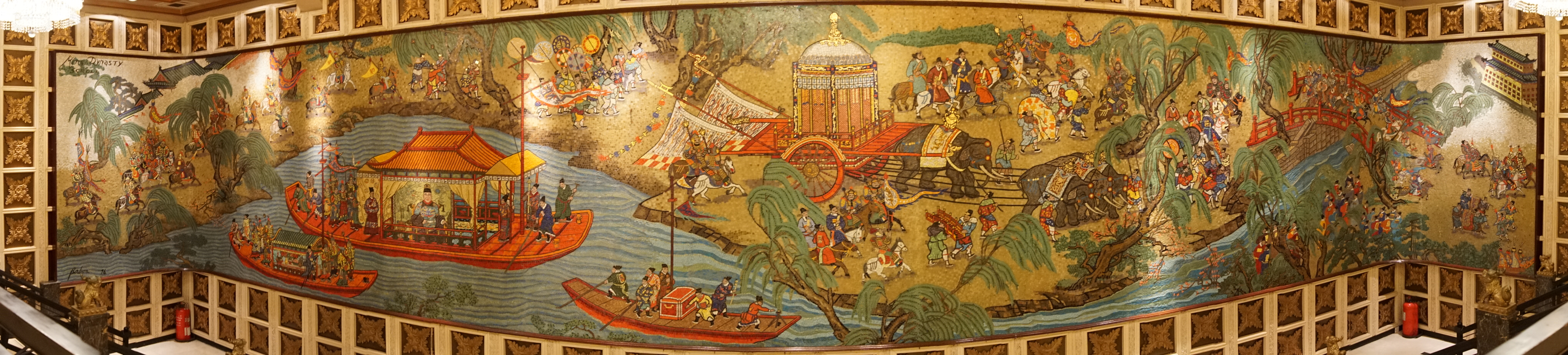 Jumbo Floating Restaurant in Sham Wan, Hong Kong.